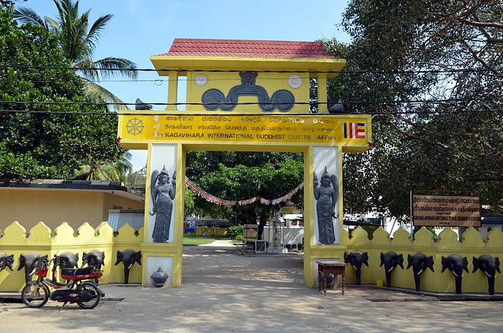 Naga Vihara in Stanley Road in Jaffna, Sri Lanka